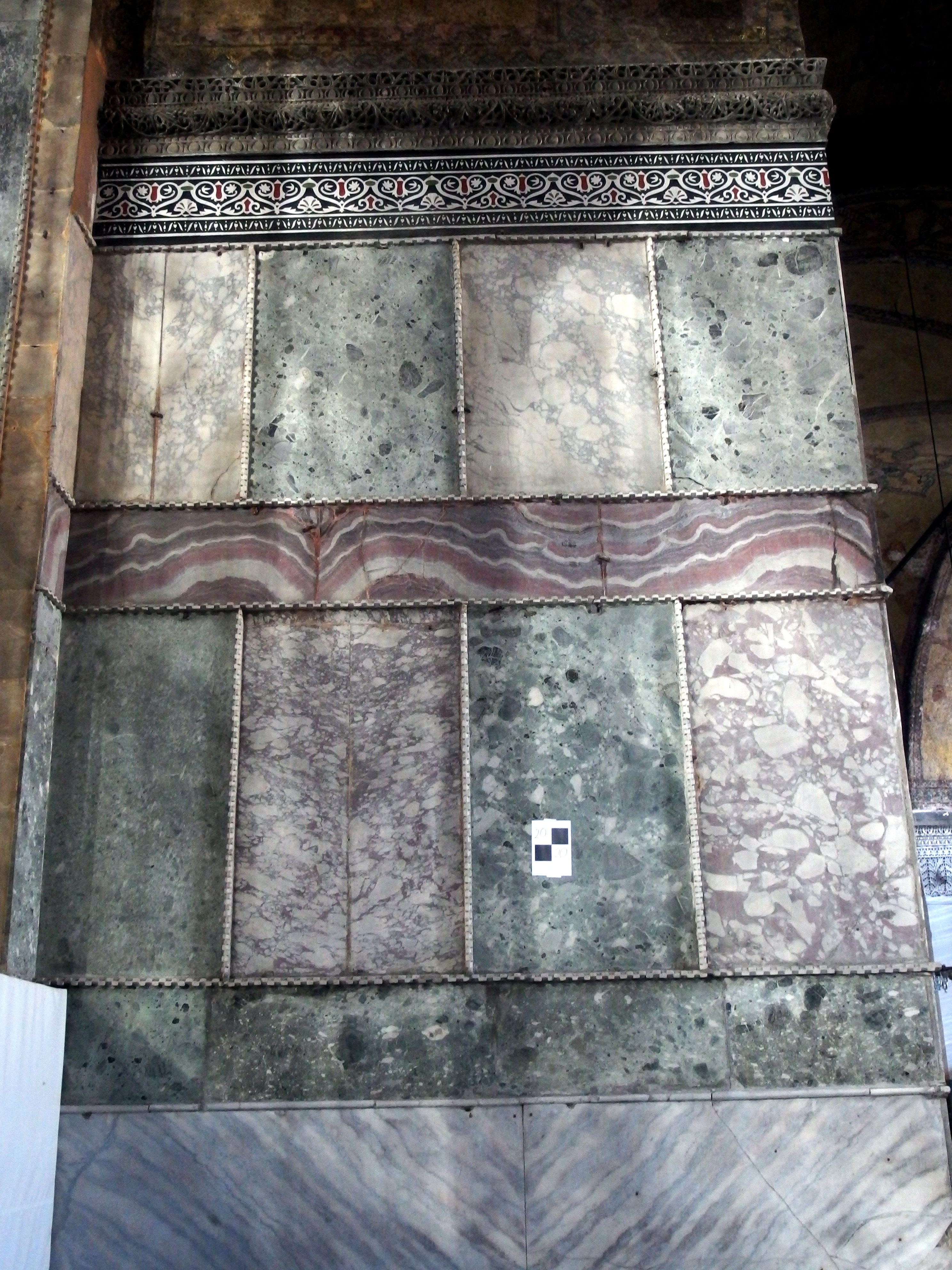 2013-12-03 in Istanbul